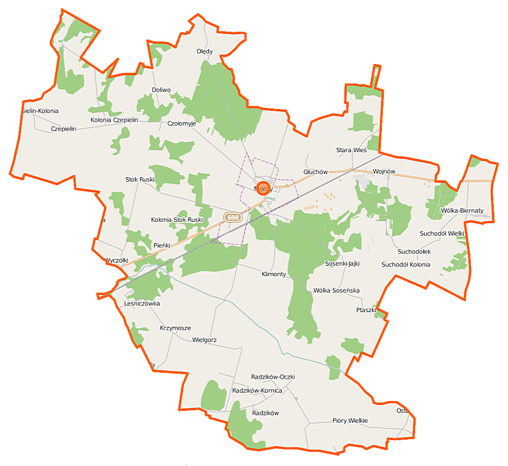 Map of Gmina Mordy, Poland This map of Mordy (gmina) was created from OpenStreetMap project data, collected by the community. This map may be incomplete, and may contain errors. Don't rely solely on it for navigation.